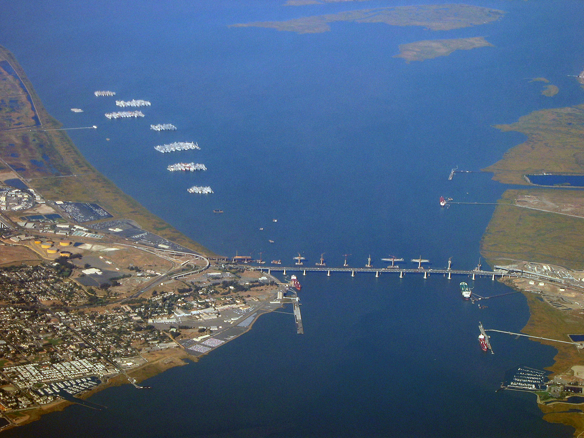 Aerial photo of the Suisun Bay. Benicia to the left, Martinez to the right, and Fairfield/Suisun City to the north.